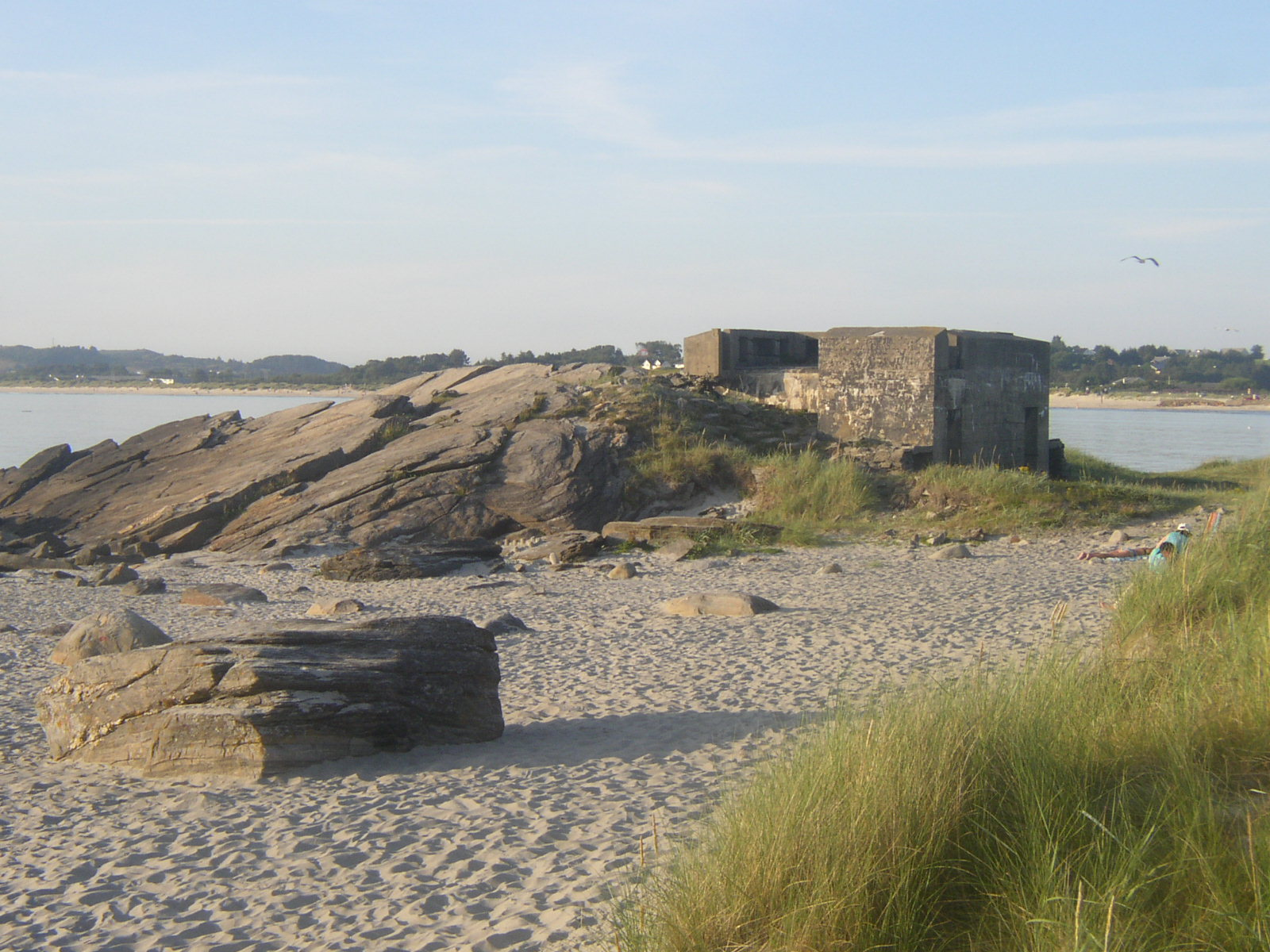 A bunker on a beach in Sola, Norway.